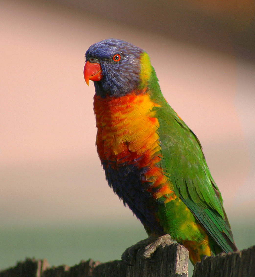 Rainbow Lorikeet Trichoglossus moluccanus perching on a garden fence in Sydney, Australia.